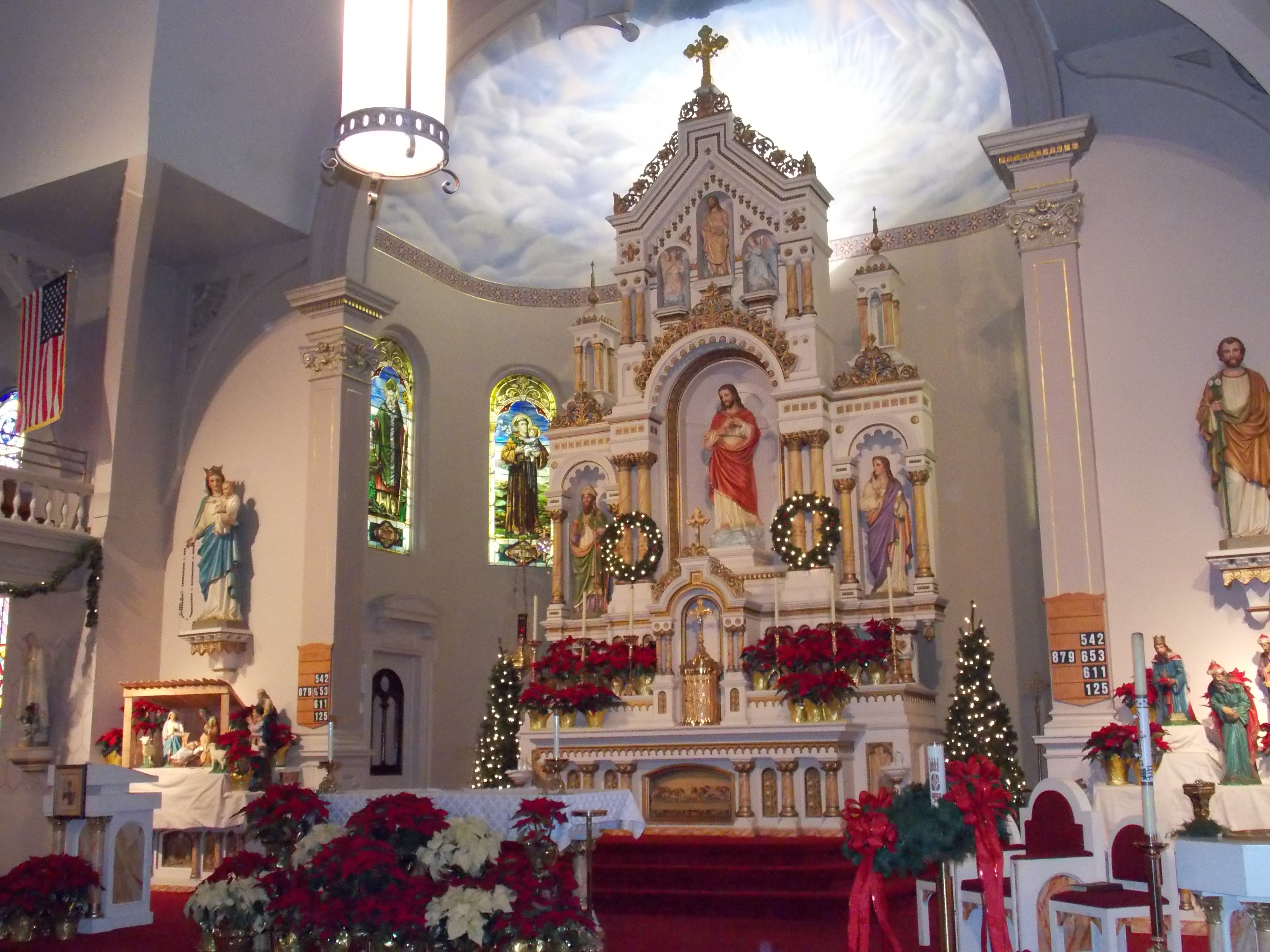 The altar of St. Anthony's Church in Davenport, Iowa.